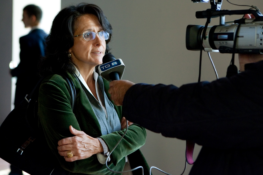 Territorial Intelligence - Reggia di Caserta